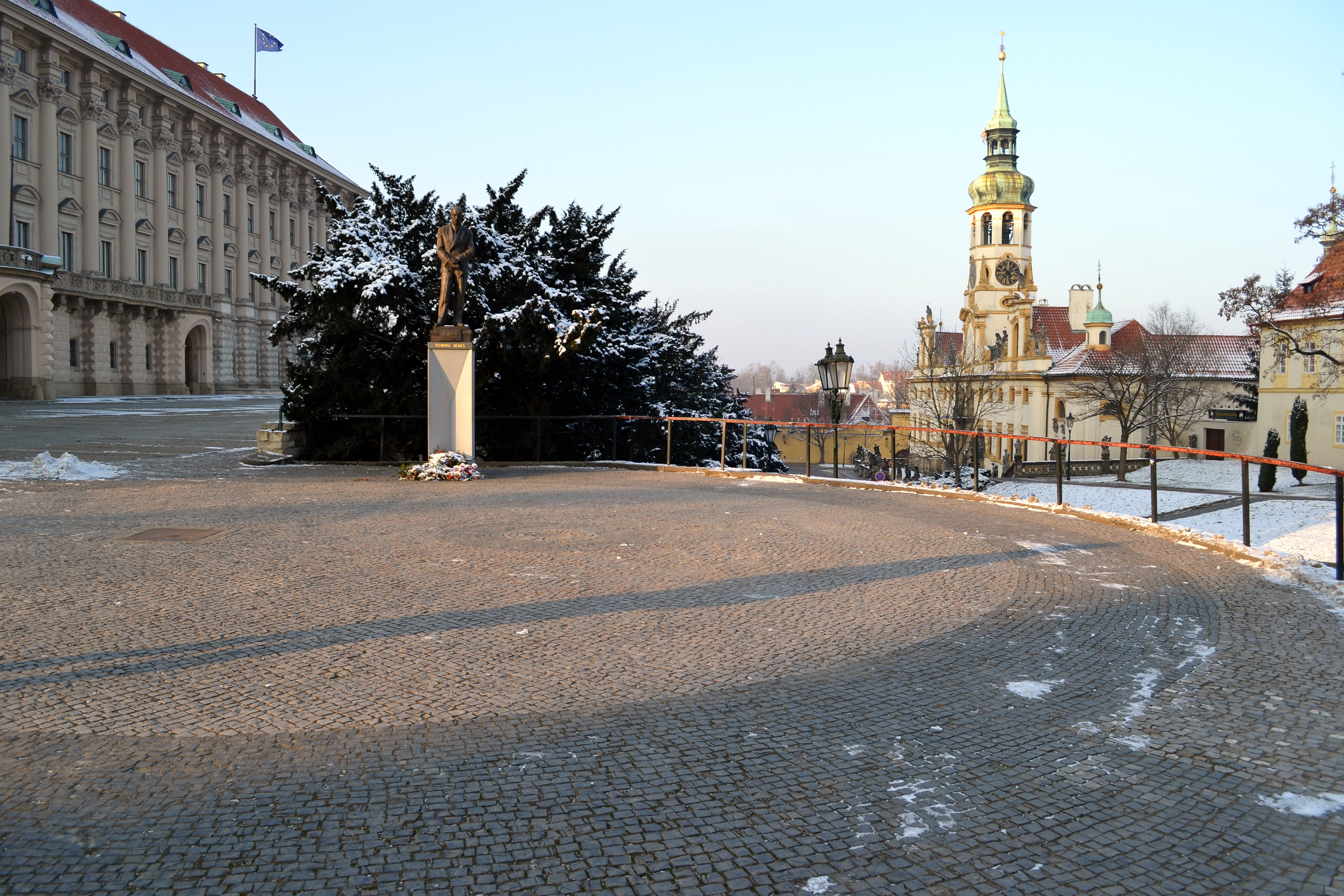 The remains of the St, Matthew chapel, Loretánské náměstí, Prague 1 - Hradčany, Czech Republic.